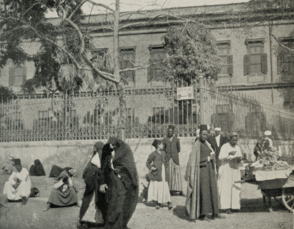 “A CORNER OF THE KHEDIVE’S PALACE.In front are two veiled figures in the ordinary costume of the poor Egyptian woman. The man in the foreground is wearing a burnûs over his galabeah. But it is much more usual among the poor Cairenes to wear a jacket over the galabeah like the boy and man to his right.”In front two veiled women are walking. Behind them men standing and sitting on the street. In the background is a building with iron fence. Black-and-white photograph.